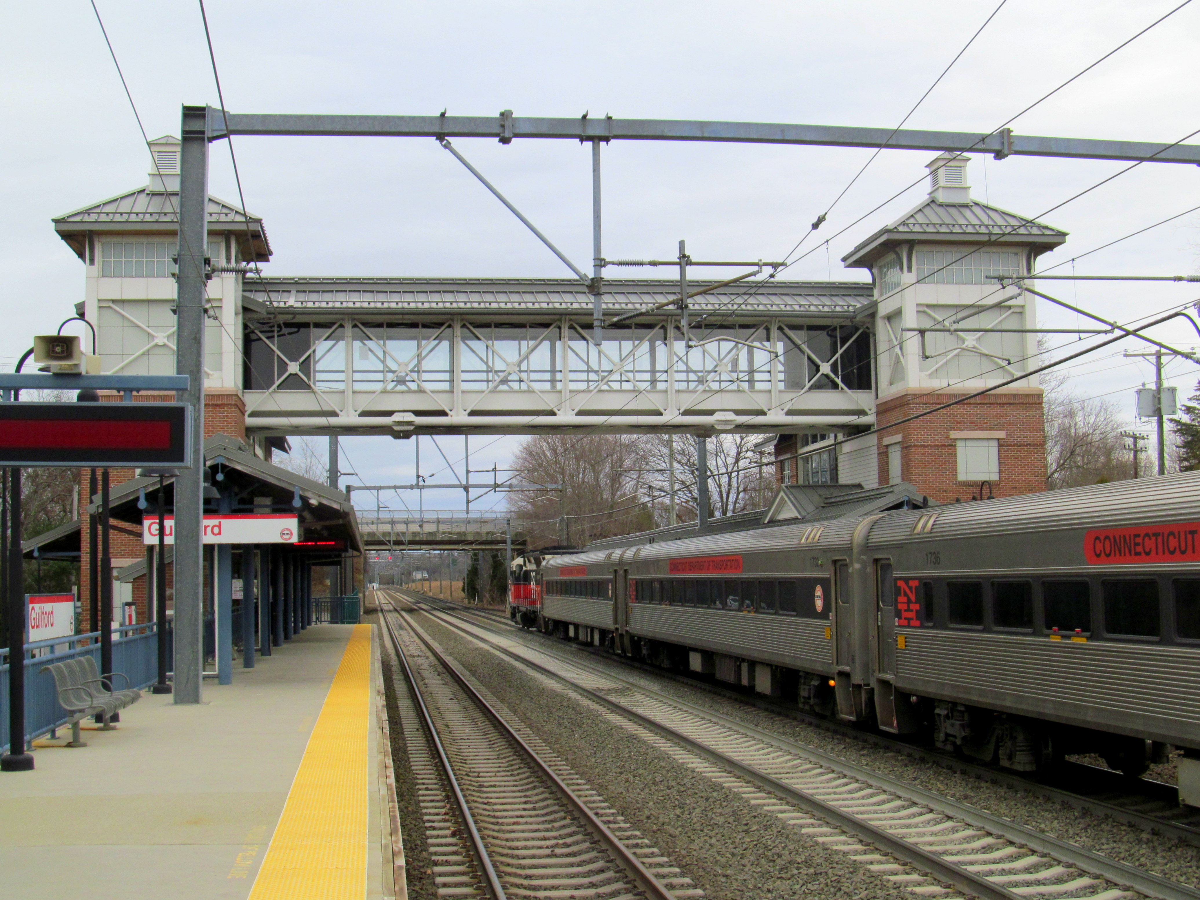 A westbound Shore Line East train at Guilford station in December 2015